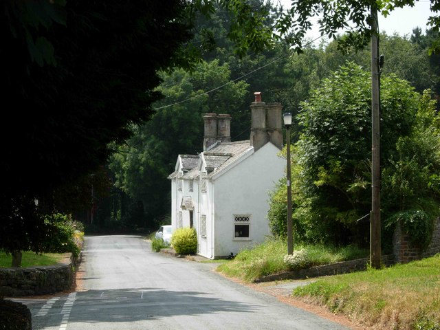 Stackpole. Looking along the village street. Stackpole is not an anglicised Welsh name; South Pembrokeshire was settled by people of Flemish origin in the 12th century, and became known as 'Little England beyond Wales', with an English linguistic and cultural flavour which is still evident today.